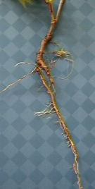 Plant taproot (transferred from Wikipedia)